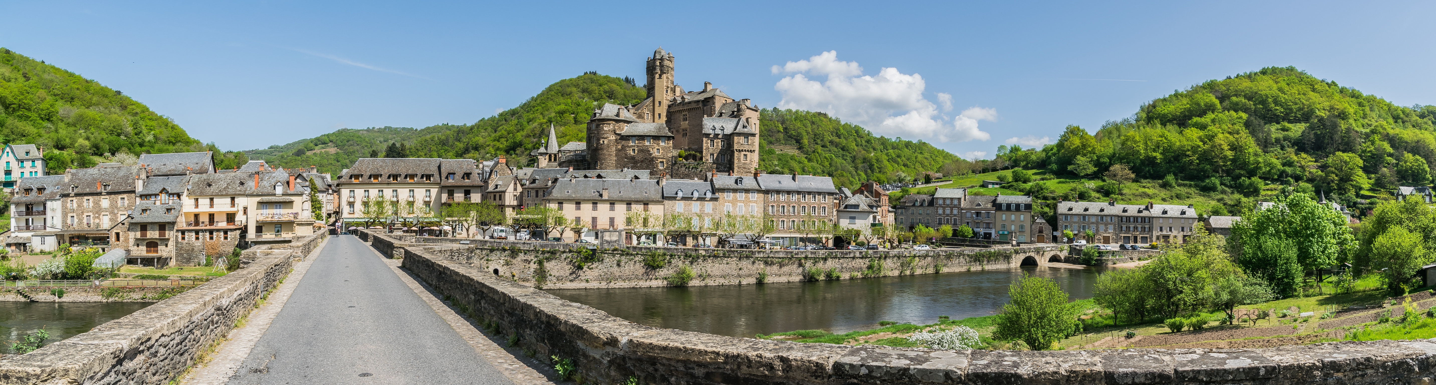 Panoramic view of Estaing, Aveyron, France